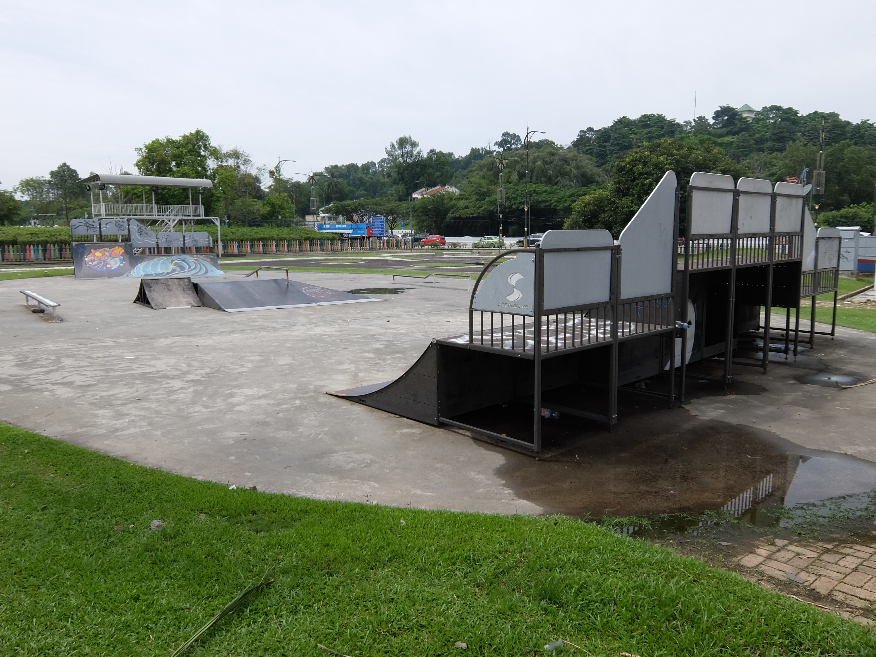 Danga Bay Skate Park, Danga Bay, Johor Bahru, Johor, Malaysia